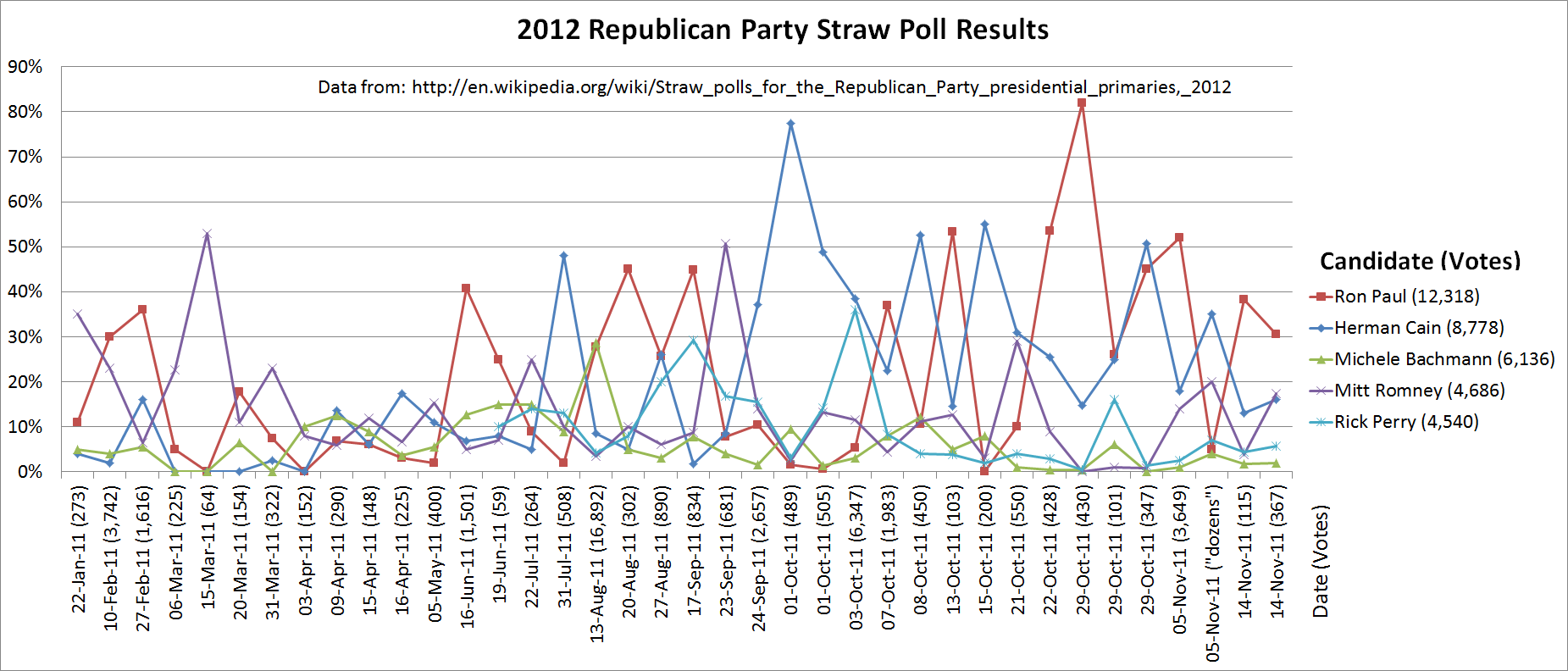 Line graph showing the current top 5 frontrunners of the 2012 Republican Primaries based on straw poll results. This includes Ron Paul, Herman Cain, Michele Bachmann, Rick Perry, and Mitt Romney.